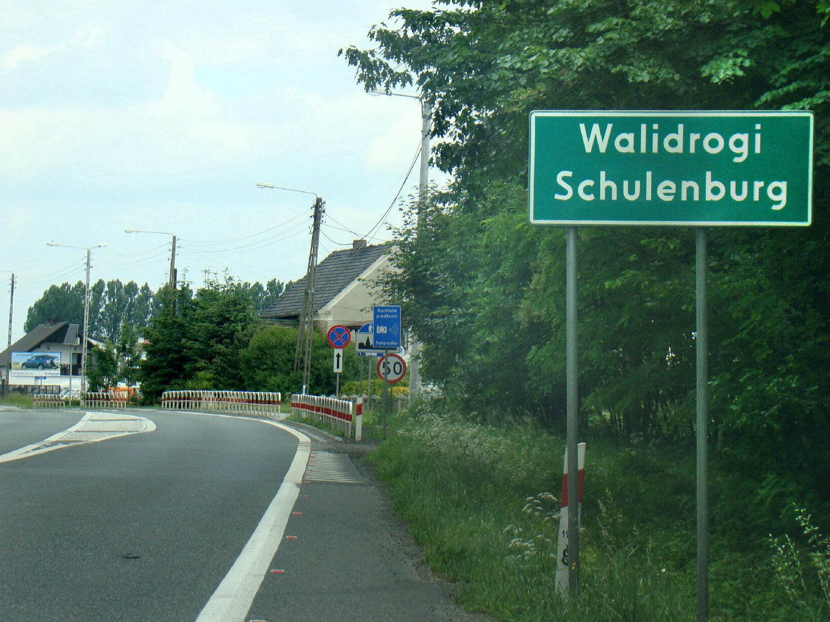 Village Walidrogi (województwo opolskie)